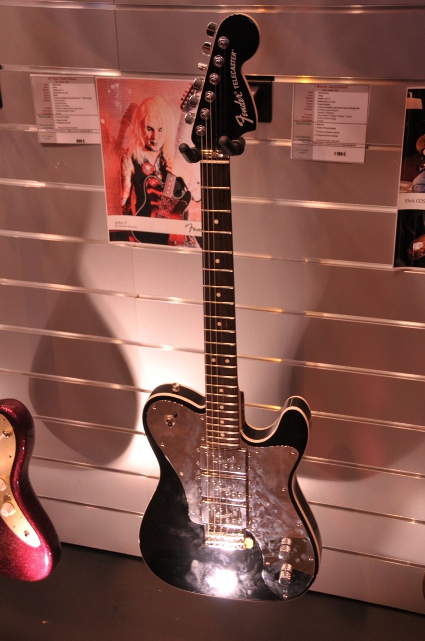 Fender Telecaster John 5 signature (formally: Fender J5 Triple Tele® Deluxe)